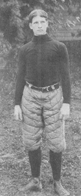 James Knight